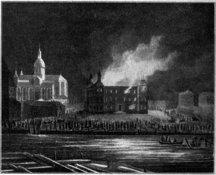 The Arsenal Theatre burning down